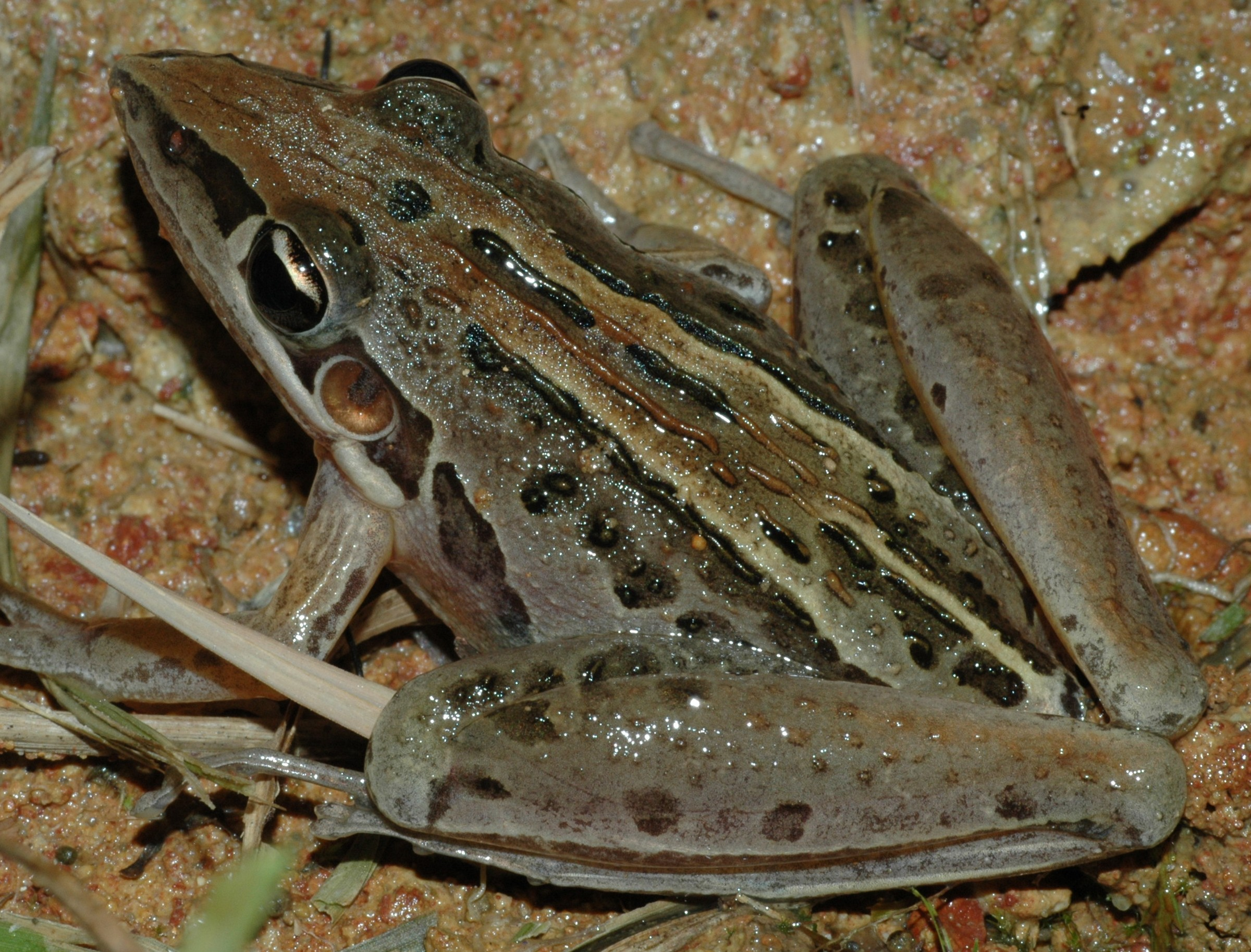 Litoria nasuta, Rocket Frog from Piggabeen, NSW Australia.